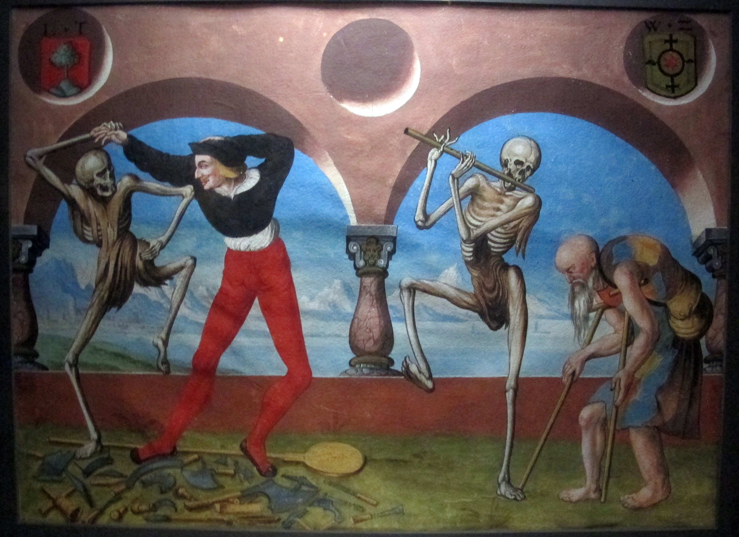 Copy of the Danse Macabre of the Dominican cemetery of Bern